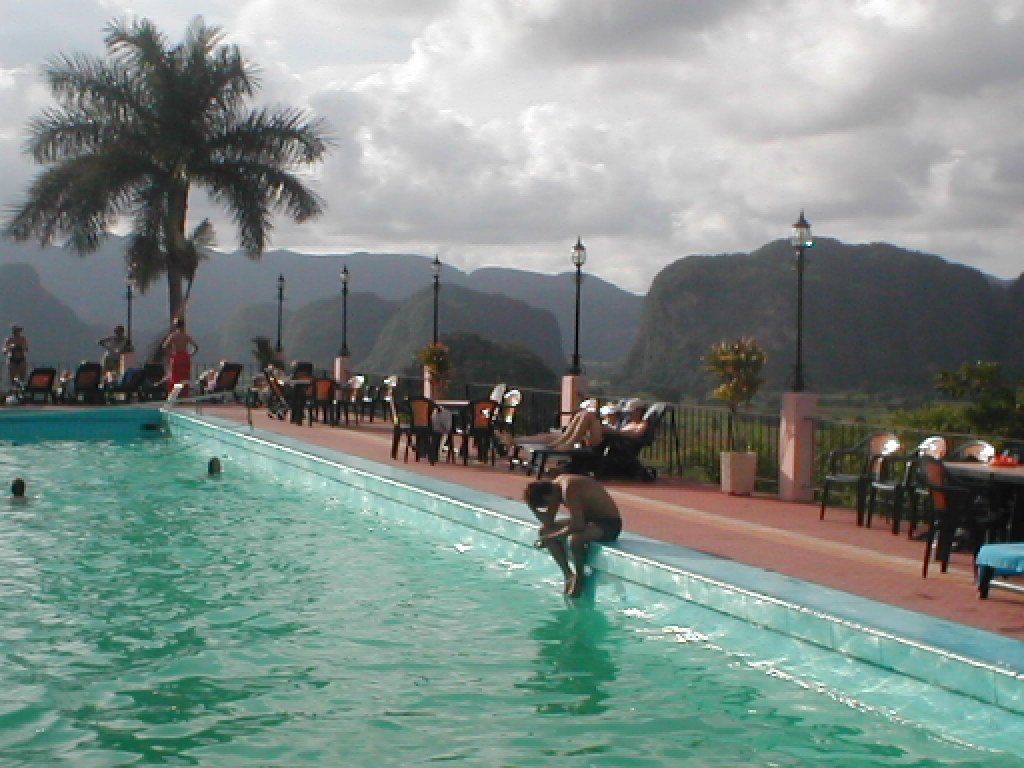 Hotel Horizontes Los Jazmines in Viñales, (Pinar del Rio Province, Cuba).